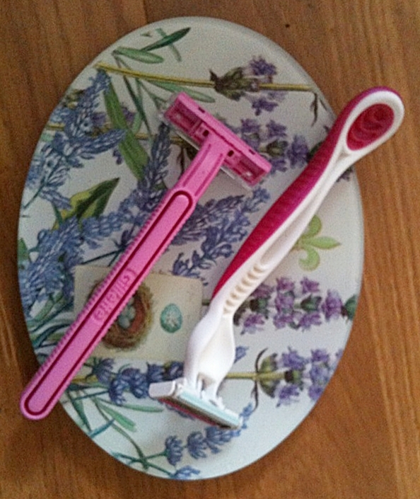 Women's shaving razors (2011)